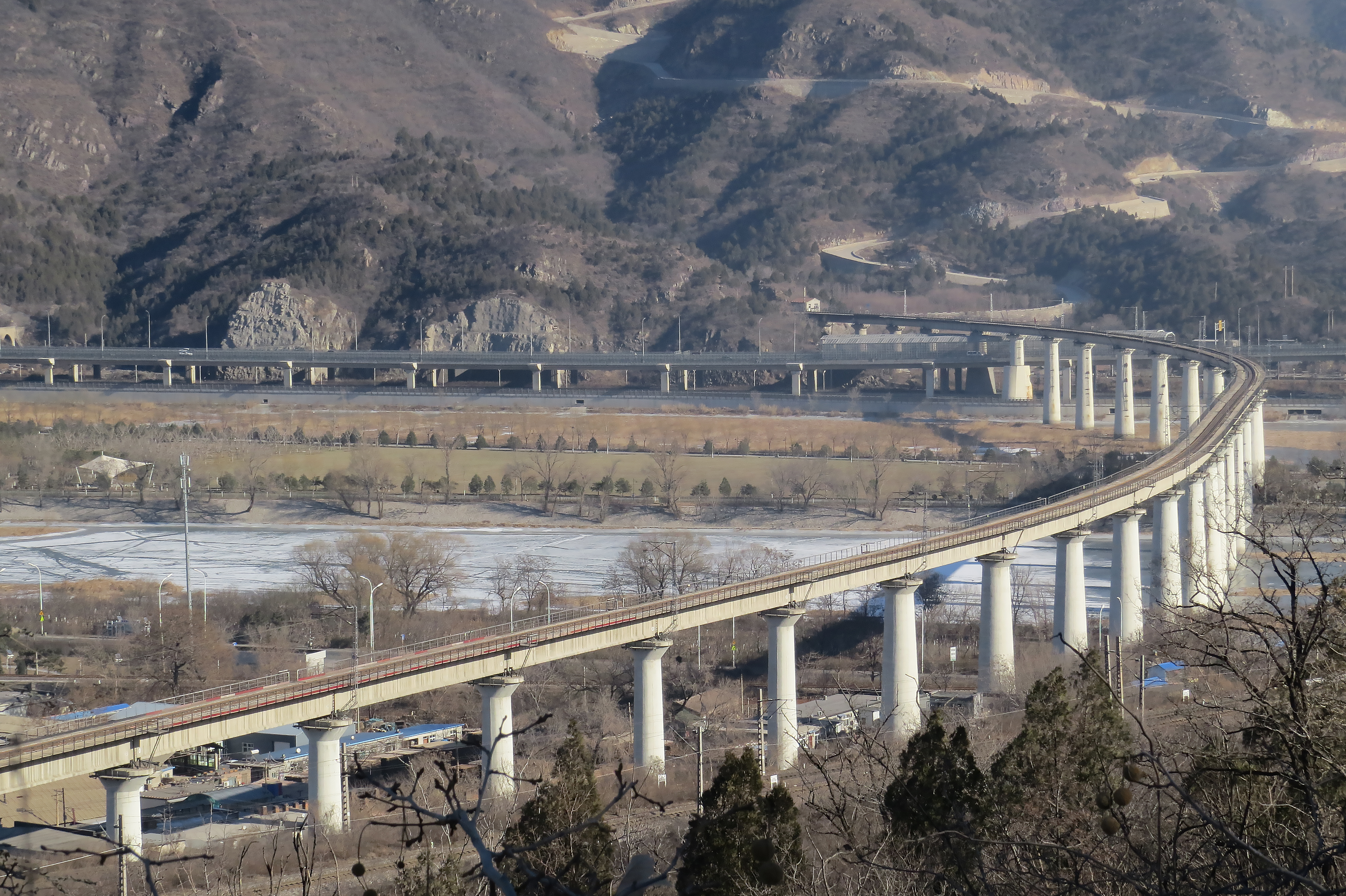 No trains at that moment.